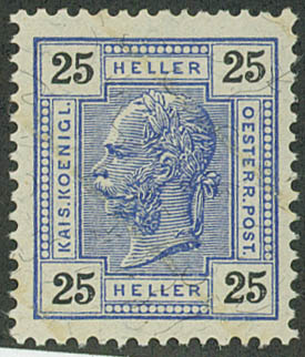 Austrian stamp issued in 1904, 25 heller face value, printed on granite paper with varnish bars over the printed image as an anti-forgery device.